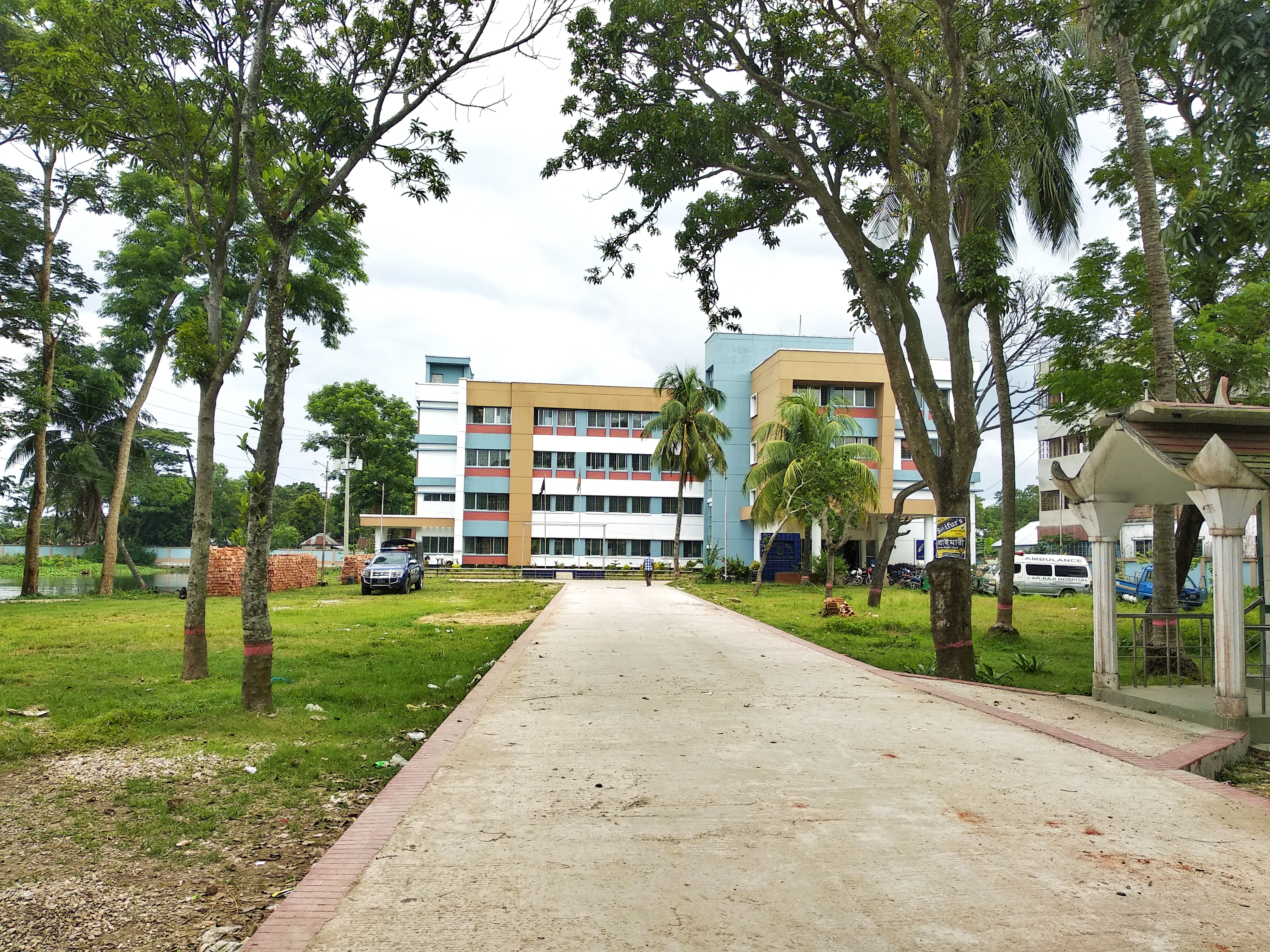 Akhaura Police Station